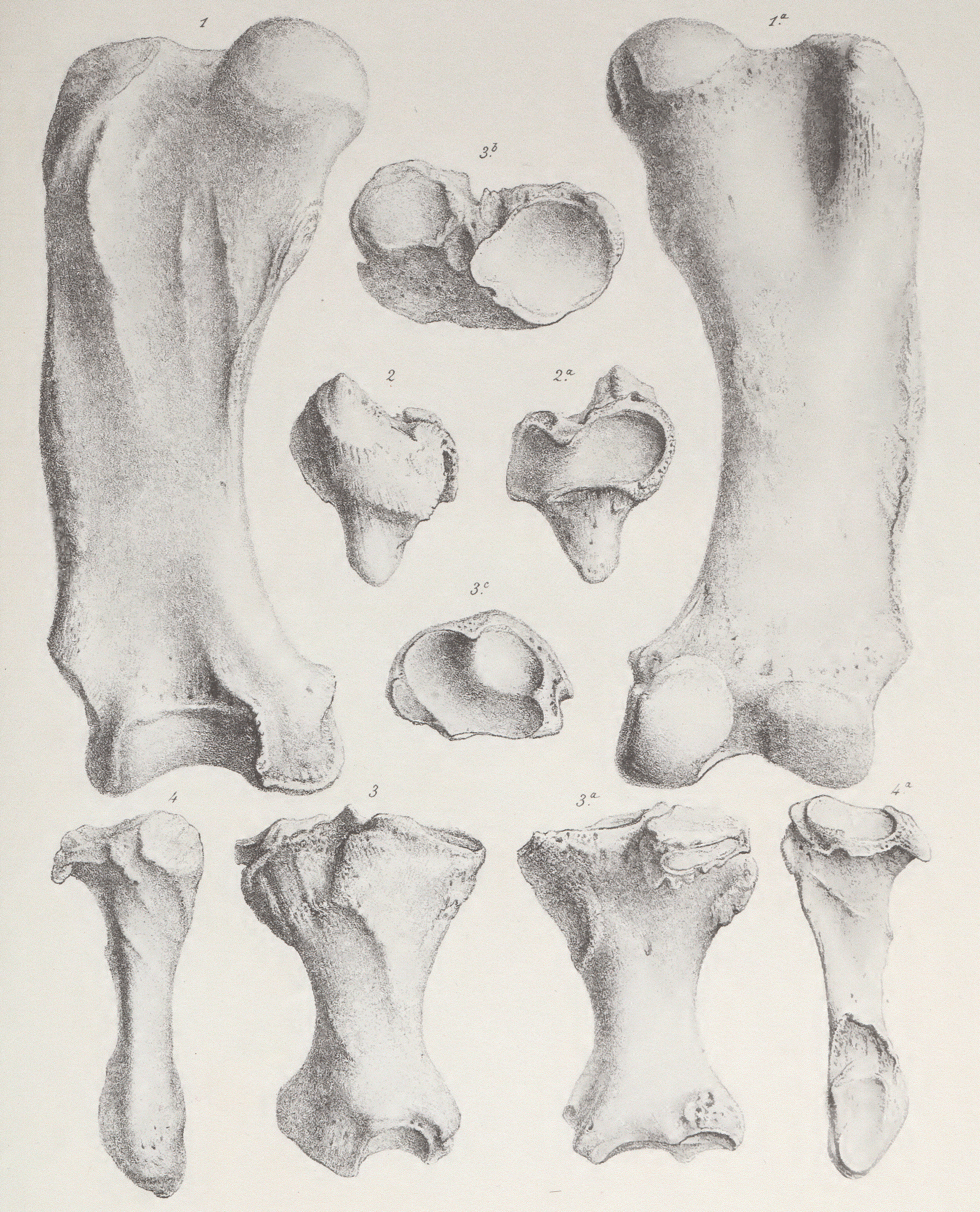 Drawing of femur and tibia of Lestodon, published by Paul Gervais: Mémoire sur plusieurs espècies de mammifères fossils propres a l’Amerique Méridionale. Mémoires de la Société géologique de France, Série 2, 9, 1873, pp. 1–44 (plate 26)